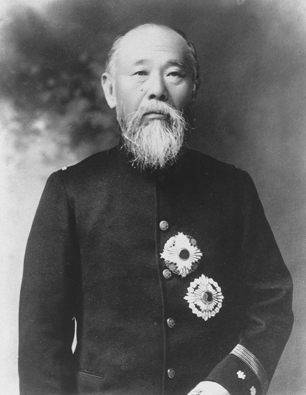 Portrait of Ito Hirobumi (伊藤博文, 1841 – 1909)